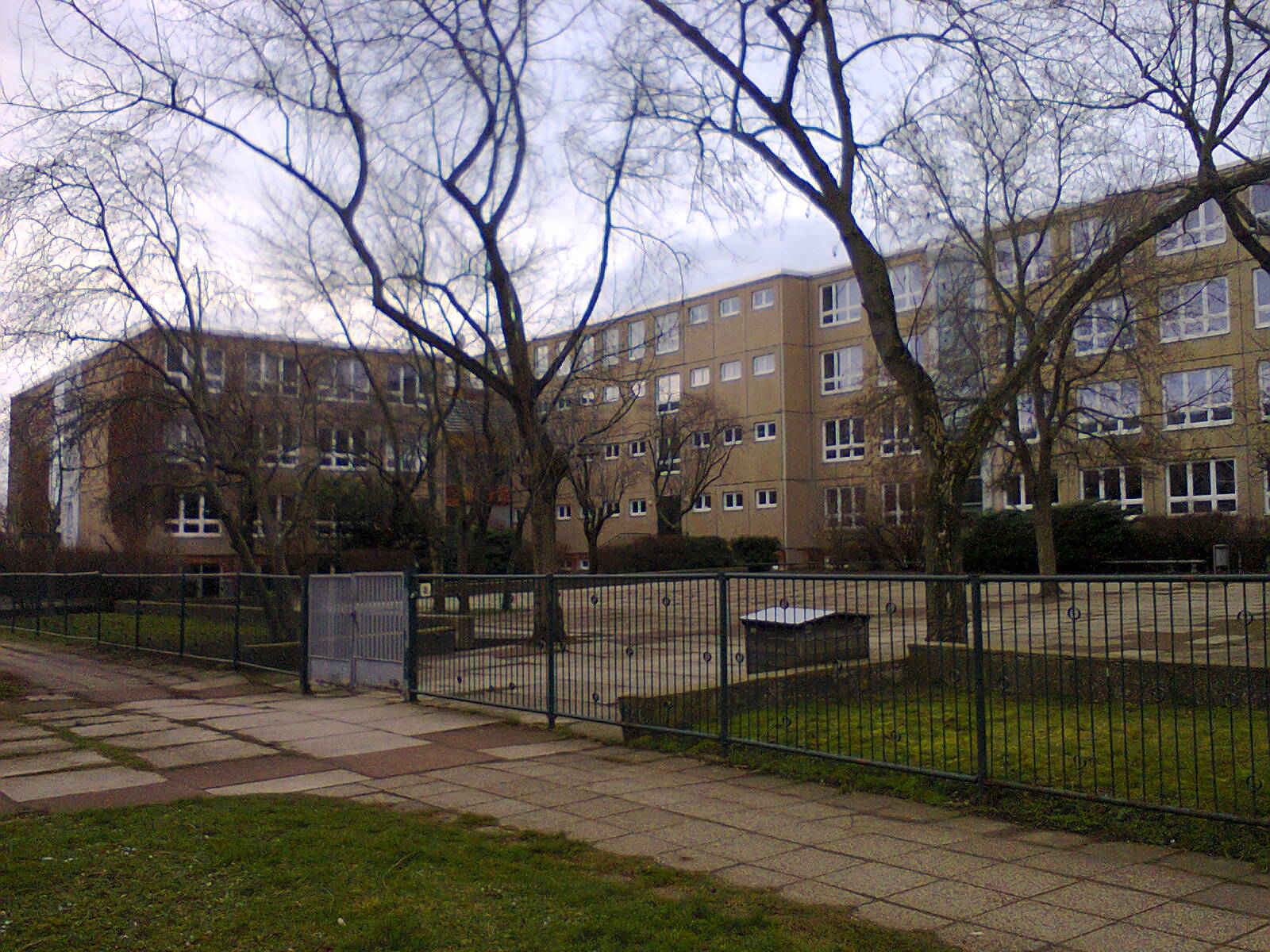 Heinrich Hertz Gymnasium Erfurt